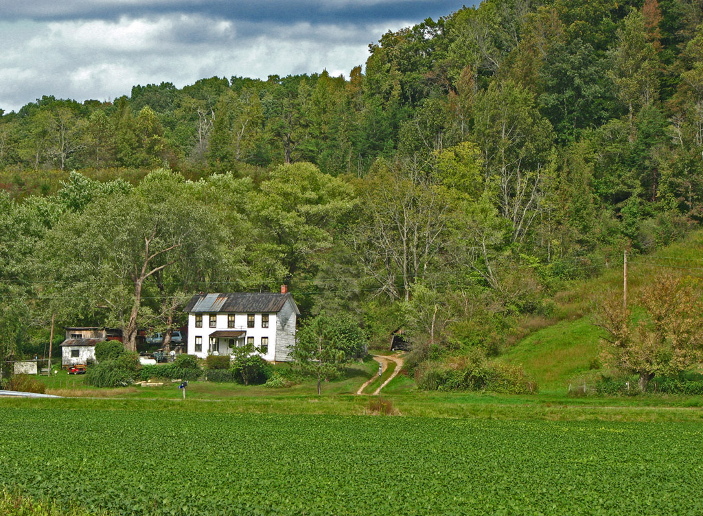 A farmhouse along State Route 522 northwest of Pedro in northwestern Elizabeth Township, Lawrence County, Ohio, United States.